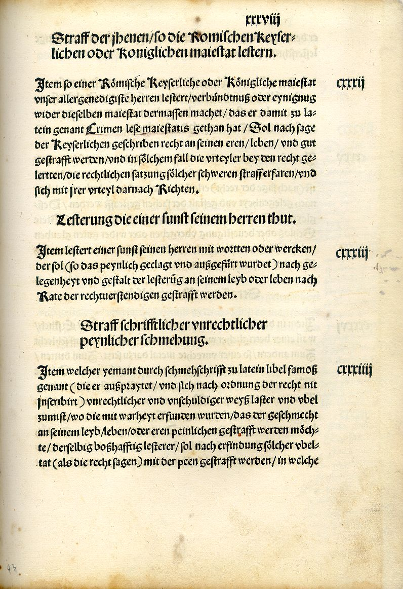 This is a scan of the historical document